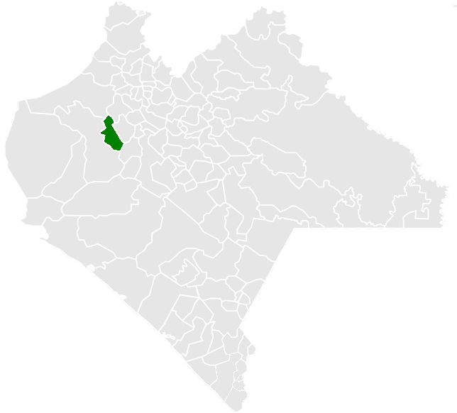 Map of the Municipalty of Berriozábal in the State of Chiapas, México.